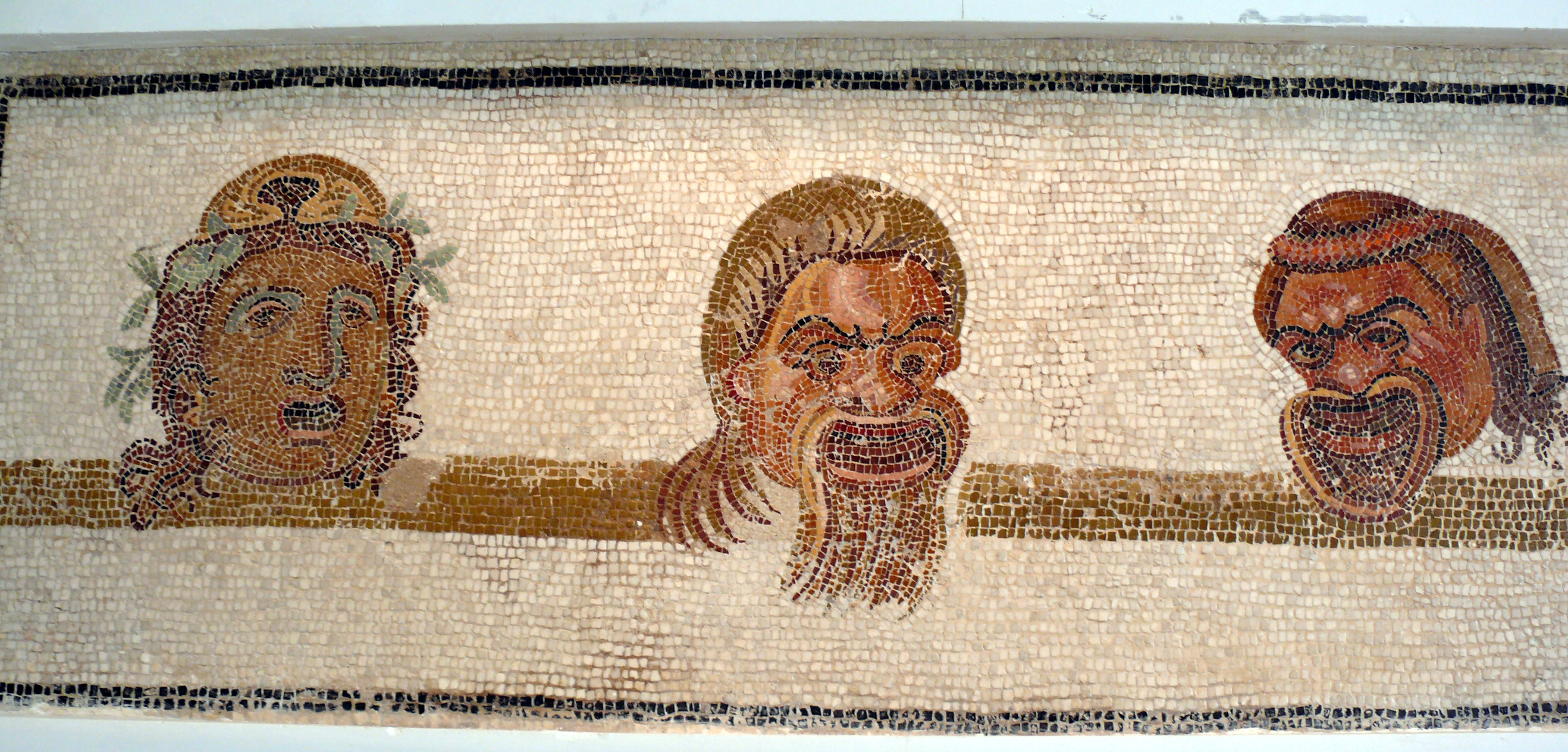 Three comedy masks Mid third century House of Masks, Sousse Archeological Museum of Sousse